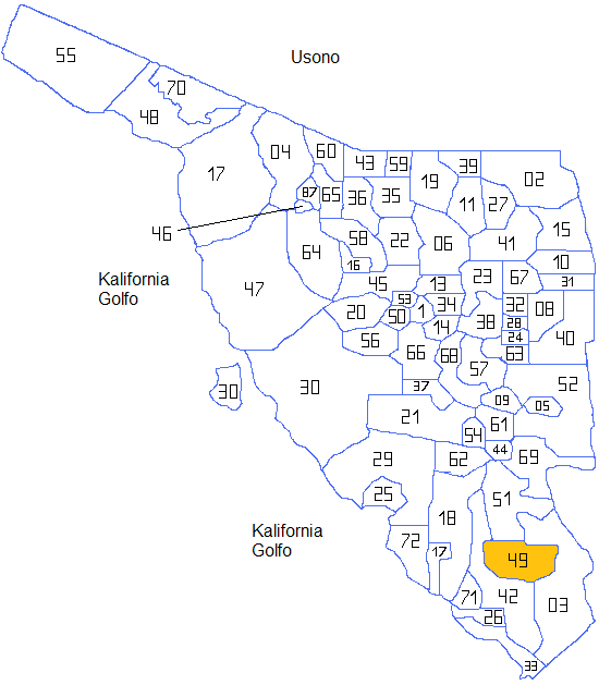 locator map of sonora